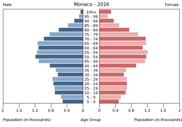 The population pyramid of Monaco illustrates the age and sex structure of population and may provide insights about political and social stability, as well as economic development. The population is distributed along the horizontal axis, with males shown on the left and females on the right. The male and female populations are broken down into 5-year age groups represented as horizontal bars along the vertical axis, with the youngest age groups at the bottom and the oldest at the top. The shape of the population pyramid gradually evolves over time based on fertility, mortality, and international migration trends.